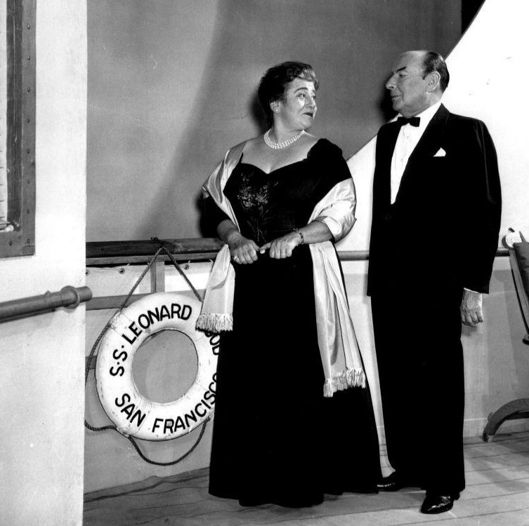 Photo of Gertrude Berg and Cedric Hardwicke from the Broadway play A Majority of One. Berg plays Mrs. Jacoby, a Brooklyn widow whose son was killed in the Pacific Theater of World War II. Hardwicke plays Koichi Asano, a wealthy Japanese widower. The two meet on a ship bound for Japan as Mrs. Jacoby's son in law in the US Foreign Service has been assigned to Tokyo. Mrs. Jacoby's daughter objects to the romance and the possible marriage of the couple.